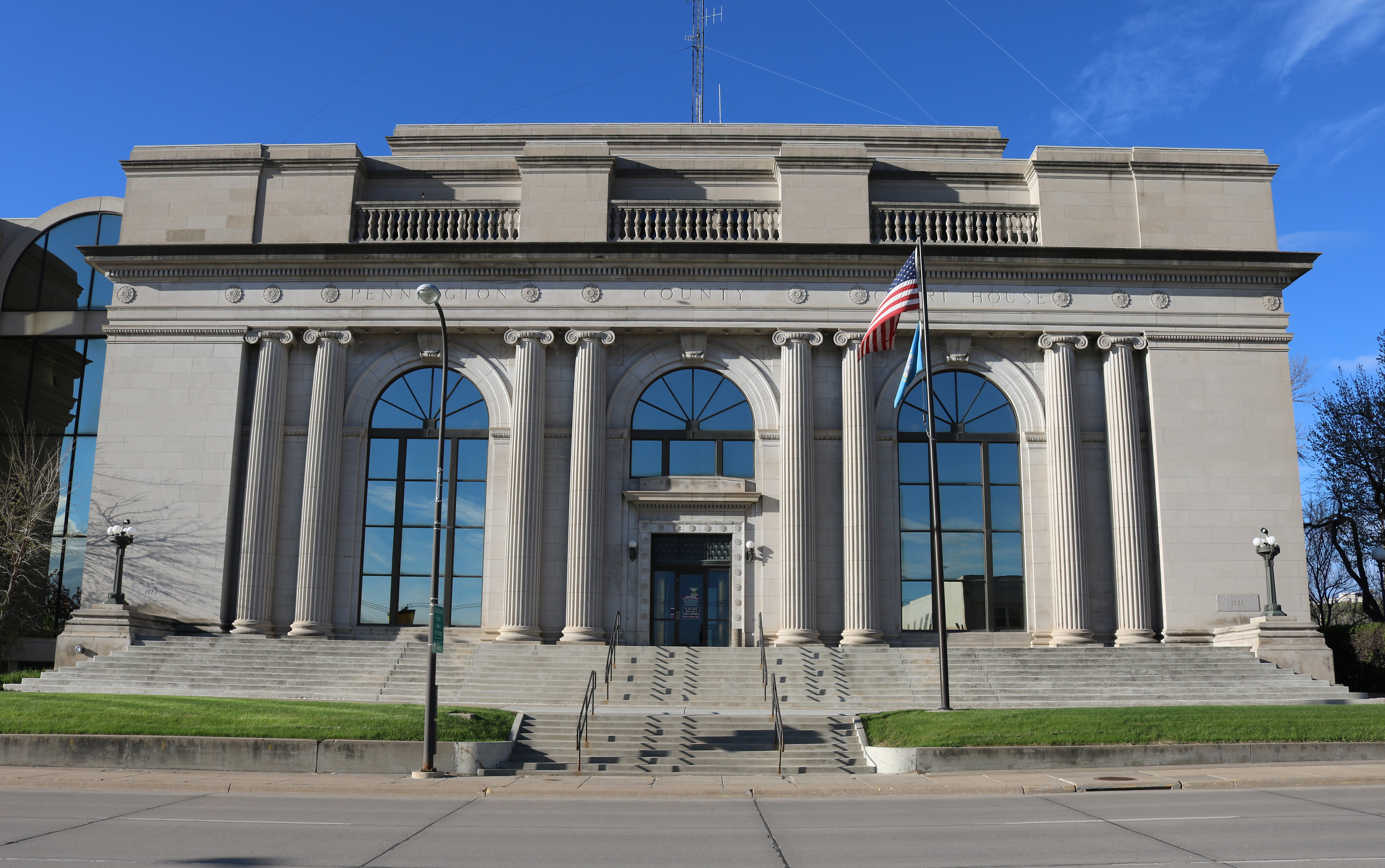 The Pennington County Courthouse, located at 301 St. Joseph Street in Rapid City, South Dakota. The property is listed on the National Register of Historic Places.